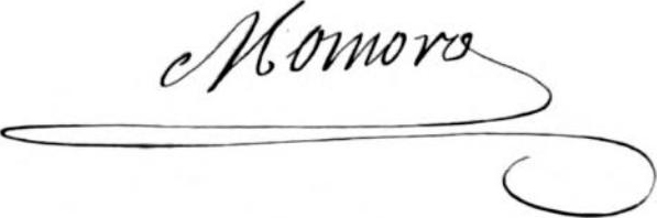 Signature of Antoine-François Momoro (1756-1794), French Revolutionist.